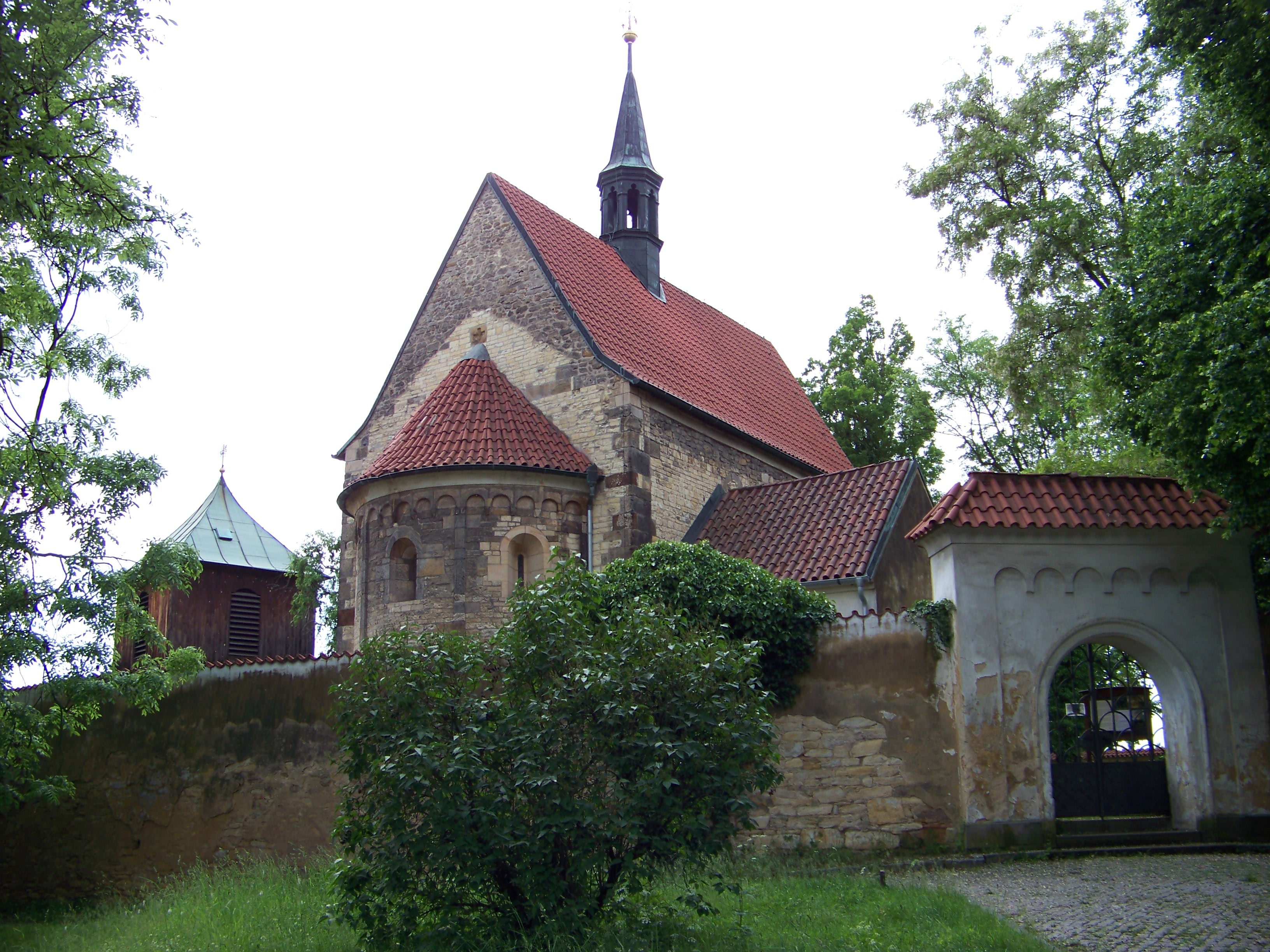 Prague-Dolní Chabry, Czech Republic. Bílenecké náměstí, Church of the Beheading of Saint John the Baptist.